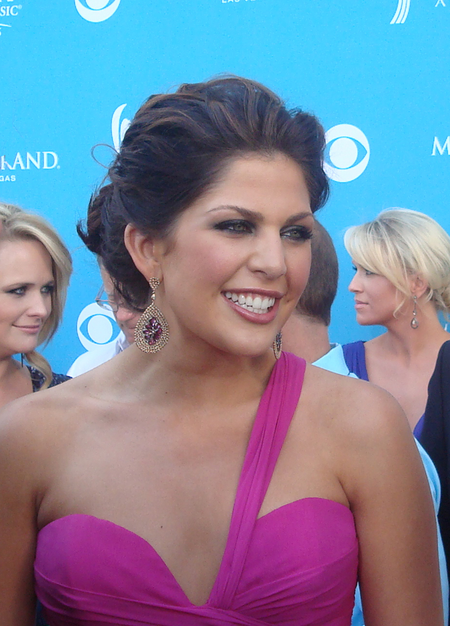 Hillary Scott (Lady Antebellum) at the 45th Annual Academy of Country Music Awards.